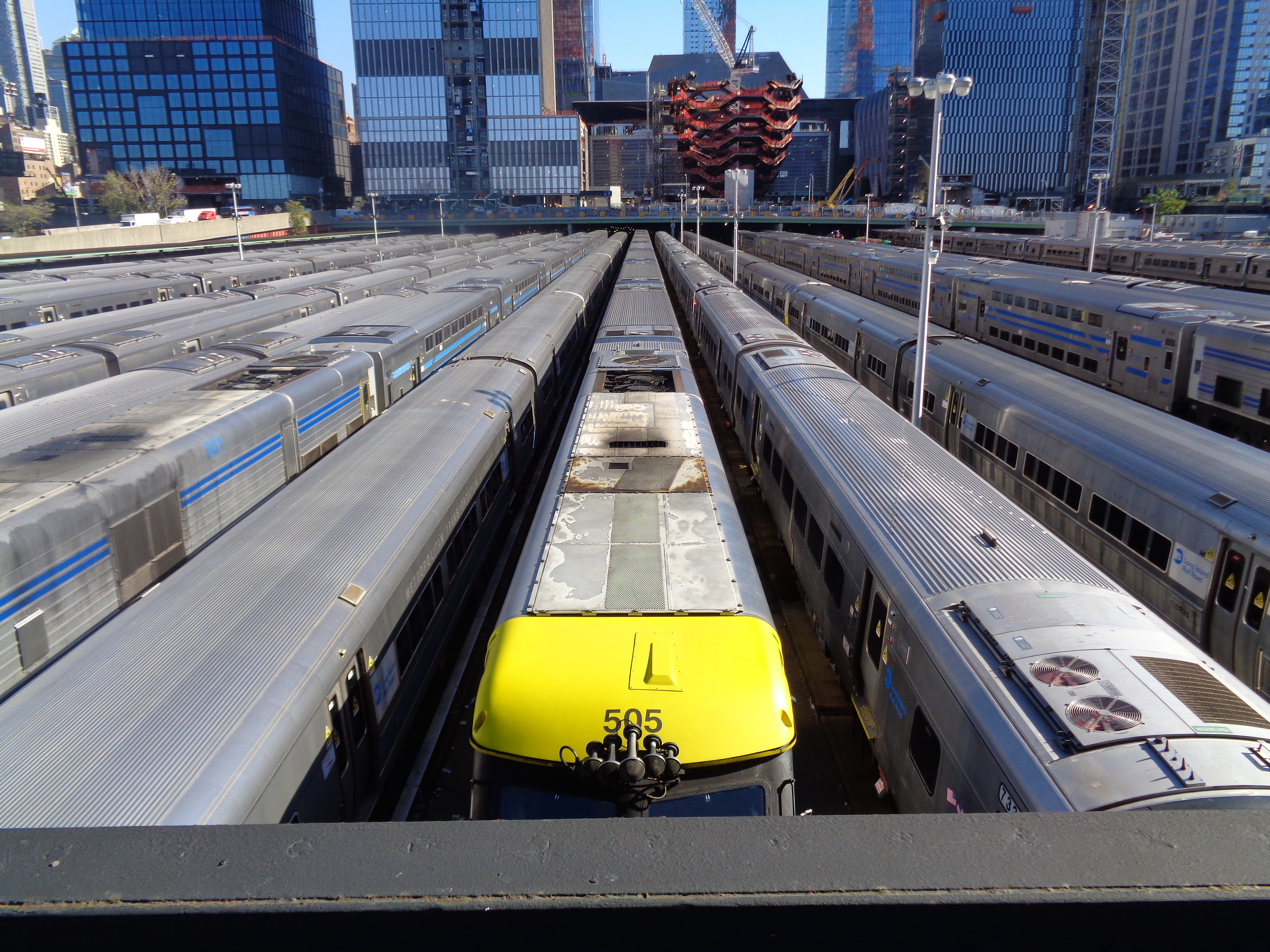 Looking north at the LIRR West Side Yard from the High Line along 12th Avenue in Hell's Kitchen, Manhattan.